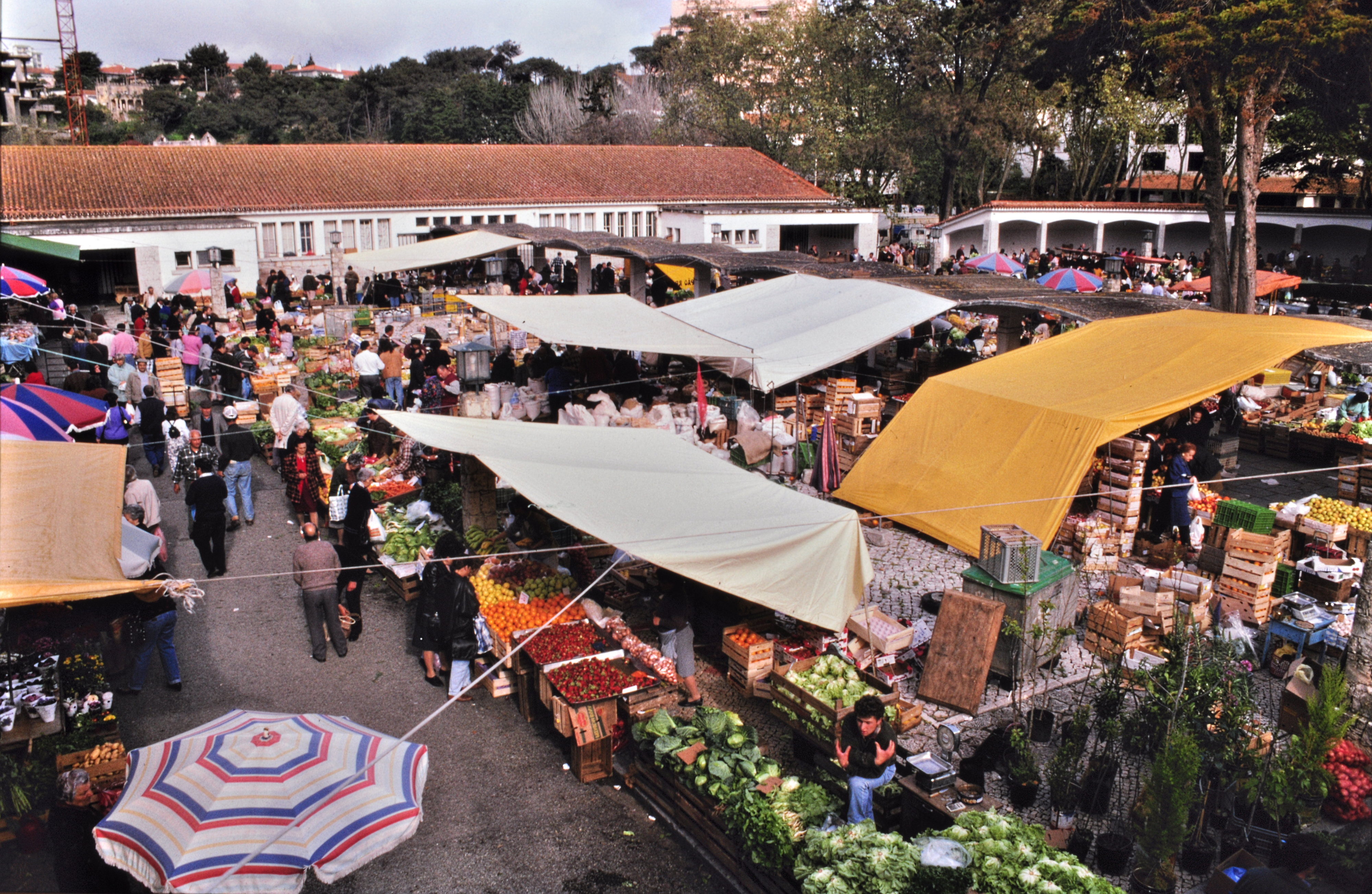 The Cascais farmer's market in 1996. This is now very changed and has been converted to meeting place with restaurants and bars. The Cascais farmer's market in 1996. This has changed quite a bit and is now a dynamic meeting place with restaurants and bars. They still hold the farmer's market there on Wednesdays, though. Taken with a Praktica MTL5B, Kodachrome 64 film, unknown lens (possibly Praktica 28mm). Digitized with a Nikon D90, Micro-Nikkor 55mm f/3.5 AI + extension tubes (56mm), F22, 1.3s, ISO 200. Processed with Fotoxx to stitch 4 shots and Gimp for the final processing.